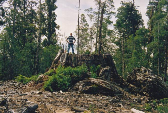 Tasmania, Styx valley, the stump of one of the largest Eucalyptus regnans to be logged. The man standing on the stump is 6'2""